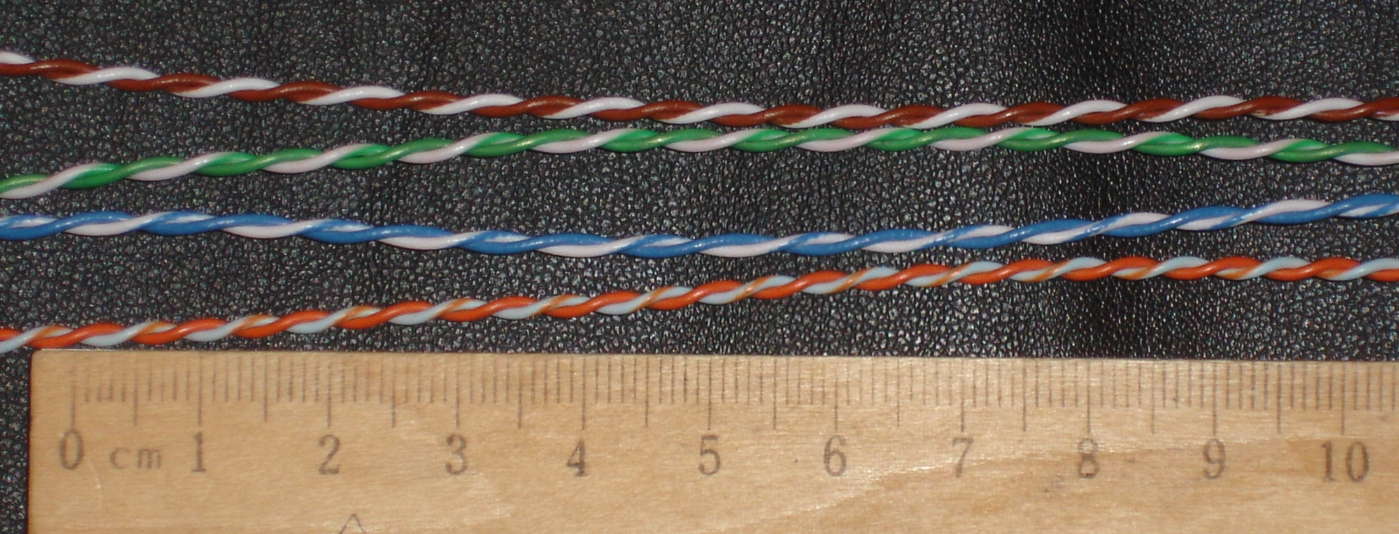 Shows twisted pairs inside network cable